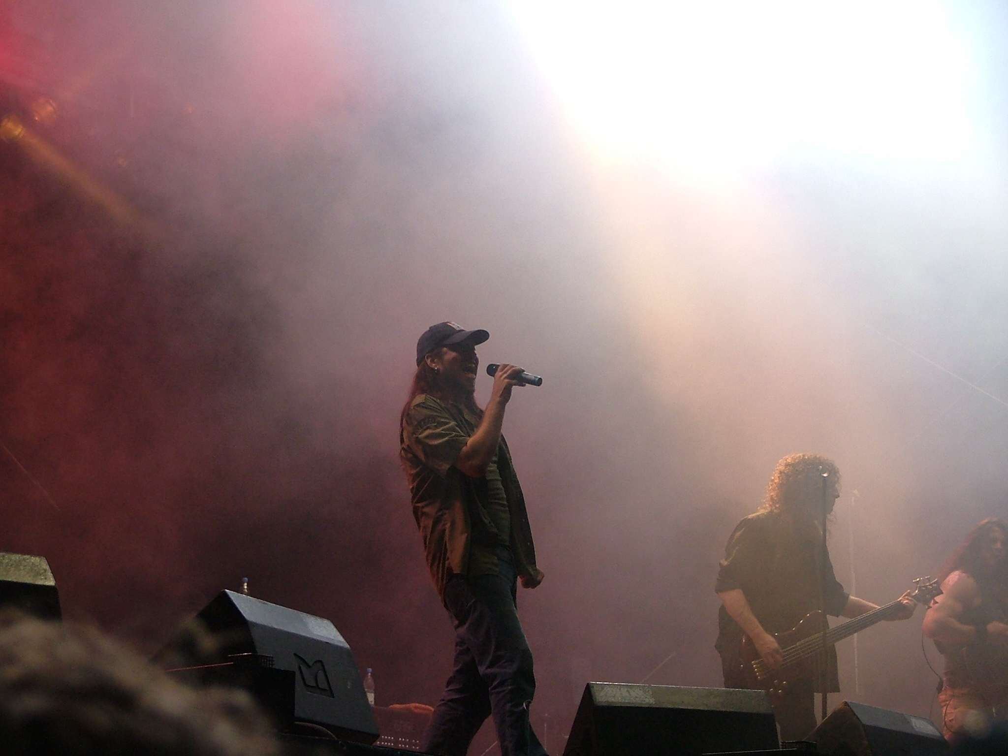 USAmerican progressive metal band Nevermore at the Summer Breeze in Dinkelsbühl